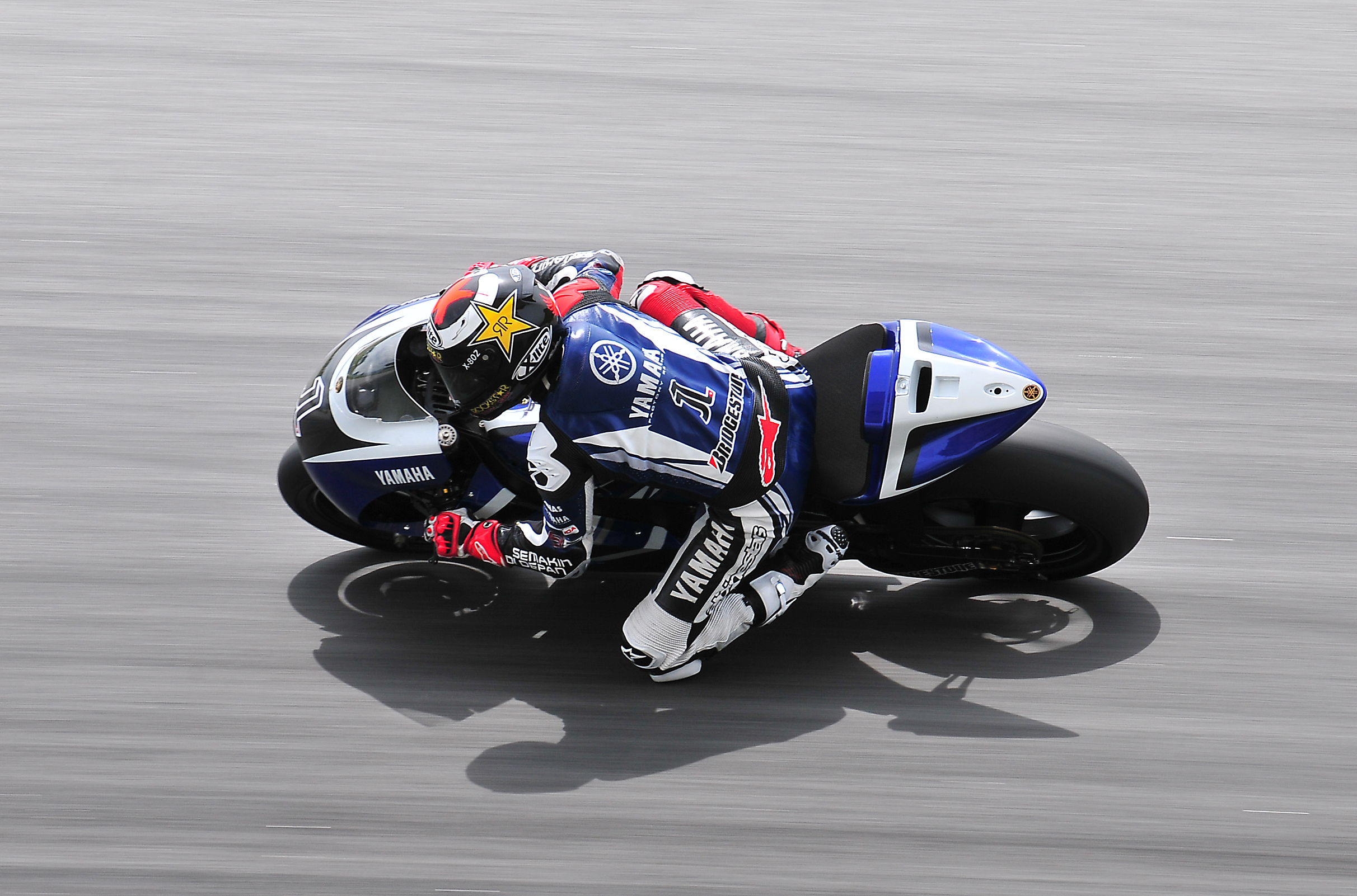 Jorge Lorenzo (2010 Champion) - Yamaha